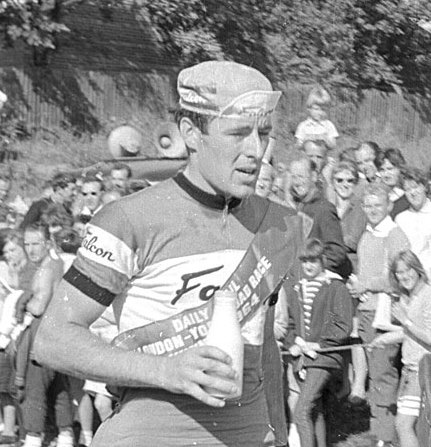 Albert Hitchen (Falcon Cycles) has just taken victory in the Daily Mail London-York road race 1964. Race ran in conjunction with the York Rally at the Knavesmire. I think the man on the left is journalist Colin Wilcock but I don't know the name of the press photographer.